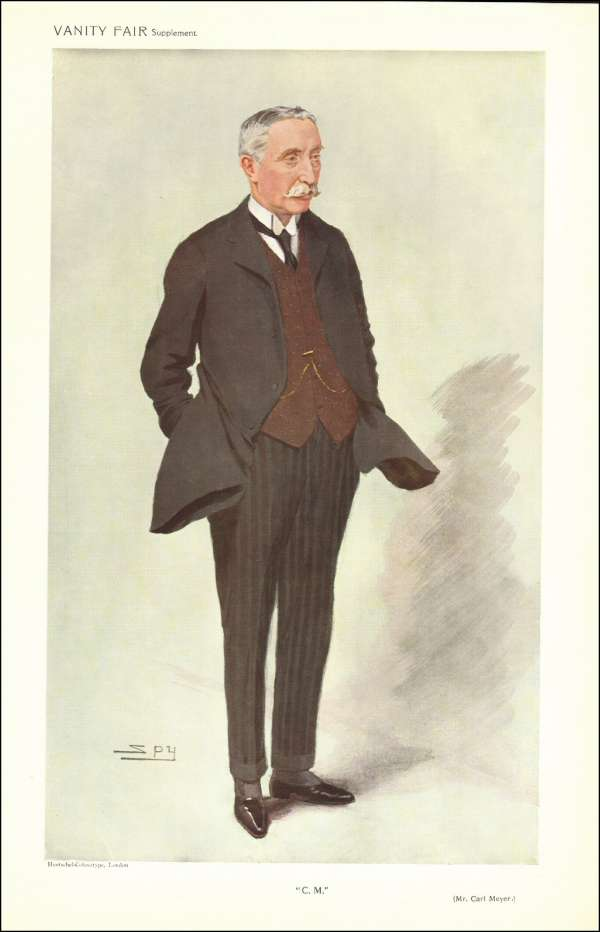 Men of the Day No.1163: Caricature of Carl Meyer. Caption reads: "CM"